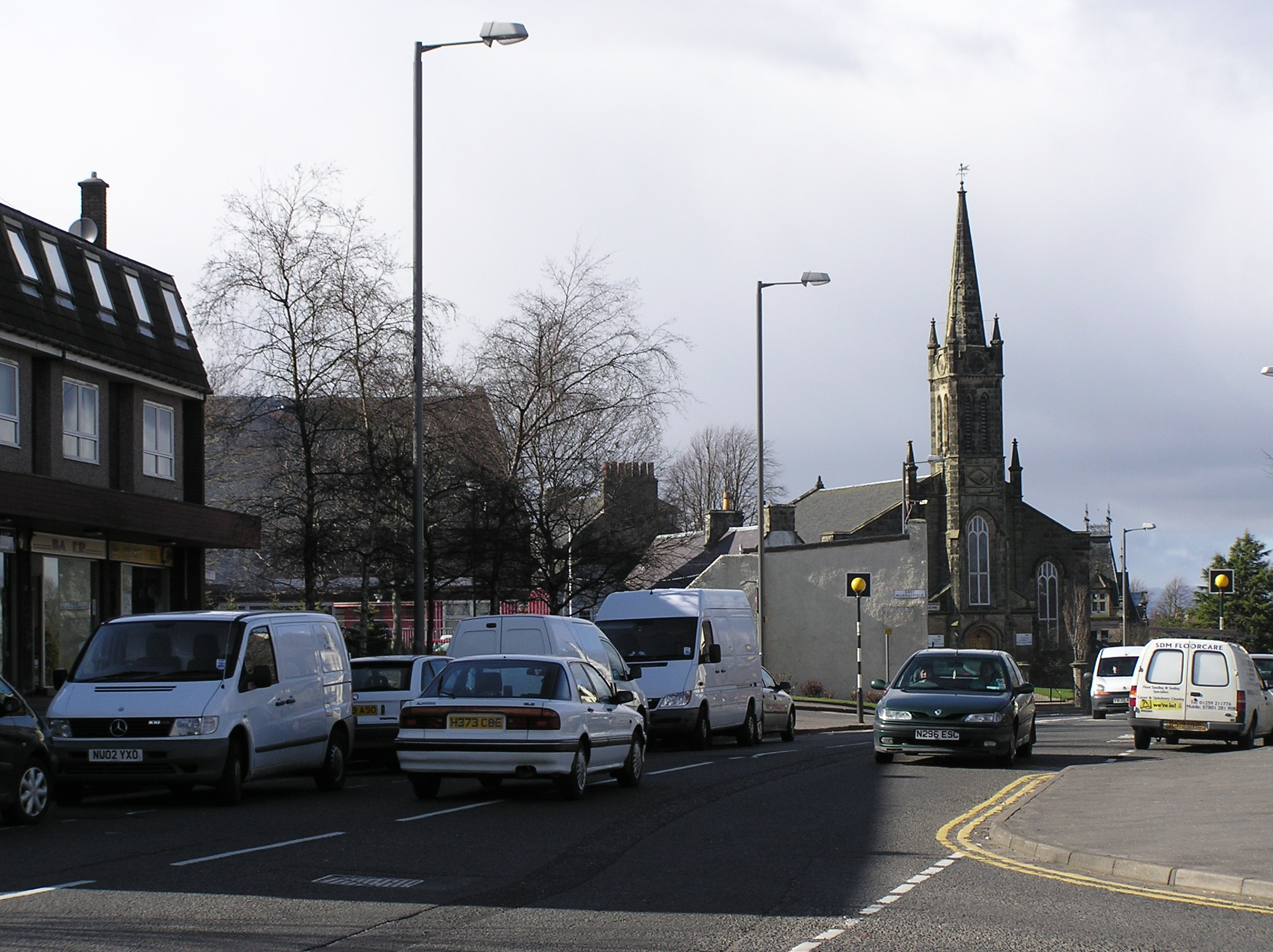 The main street of Bannockburn near Stirling in Scotland